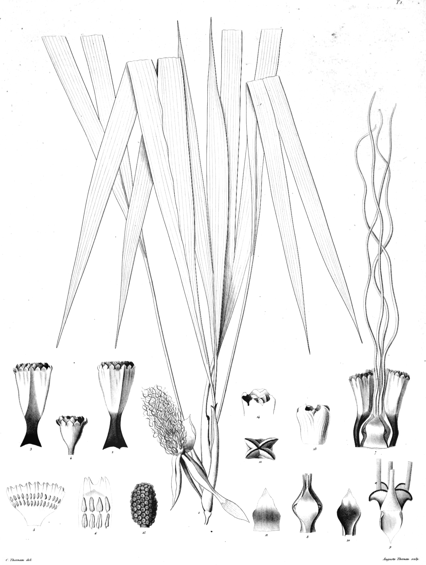 Plate from book